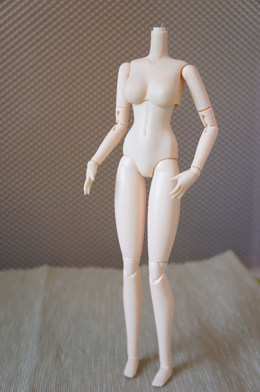 Obitsu Body 27 W SBH doll body by Obitsu Plastic Manufacturing Co., Ltd.